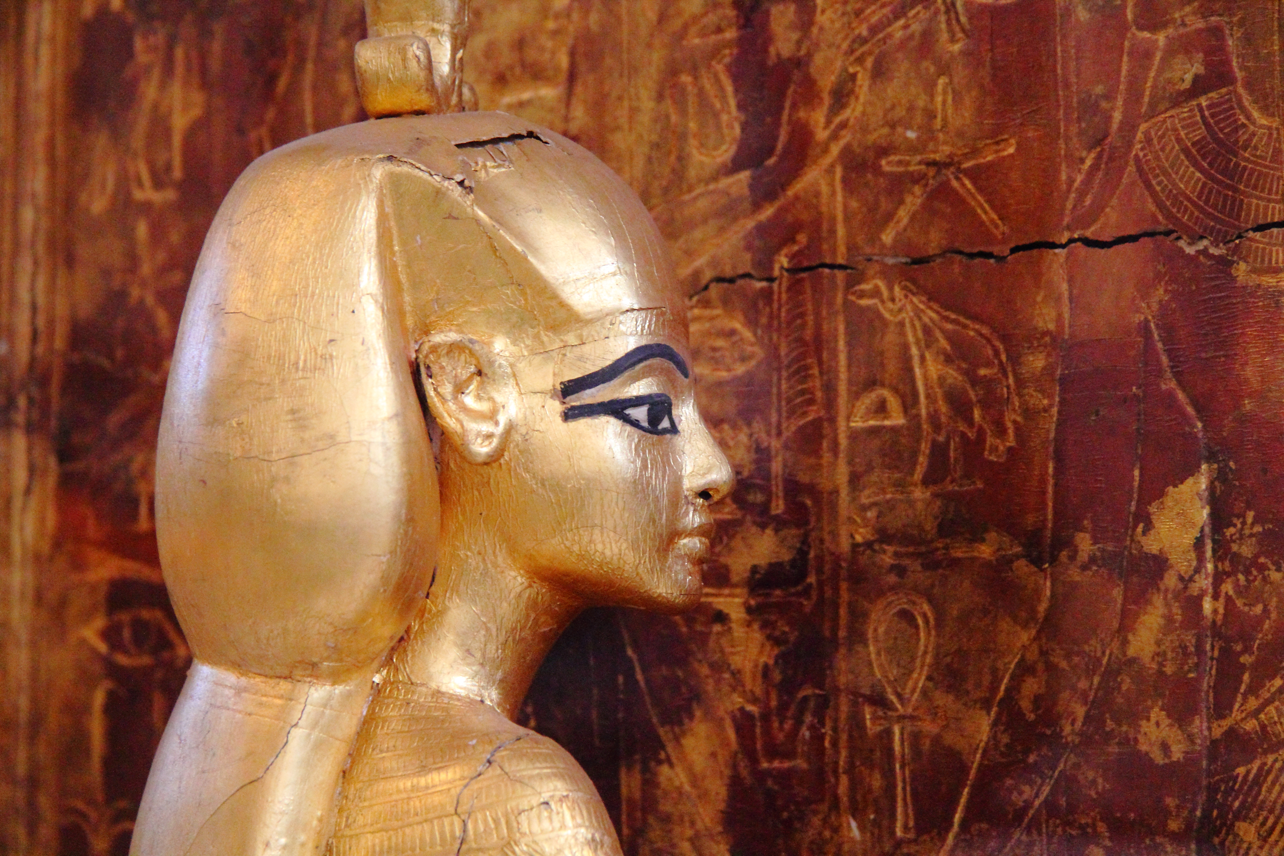 Egyptian Museum, Cairo: Material from the tomb treasure of king Tutankhamun, 18th dynasty, New Kingdom of Egypt